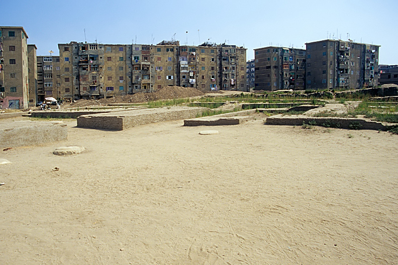 Middle Kingdom palace, Tell Basta, Egypt